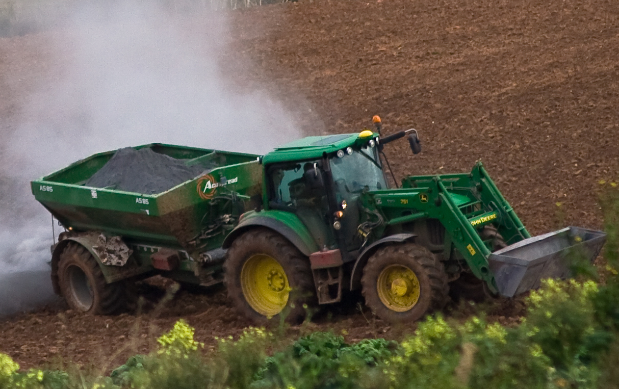 A John Deere tractor with a JD front loader and a trailed Acuspread AS85 multi-purpose spreader (fertiliser, lime … spreader) spreading lime on a Devon field, England, UK.